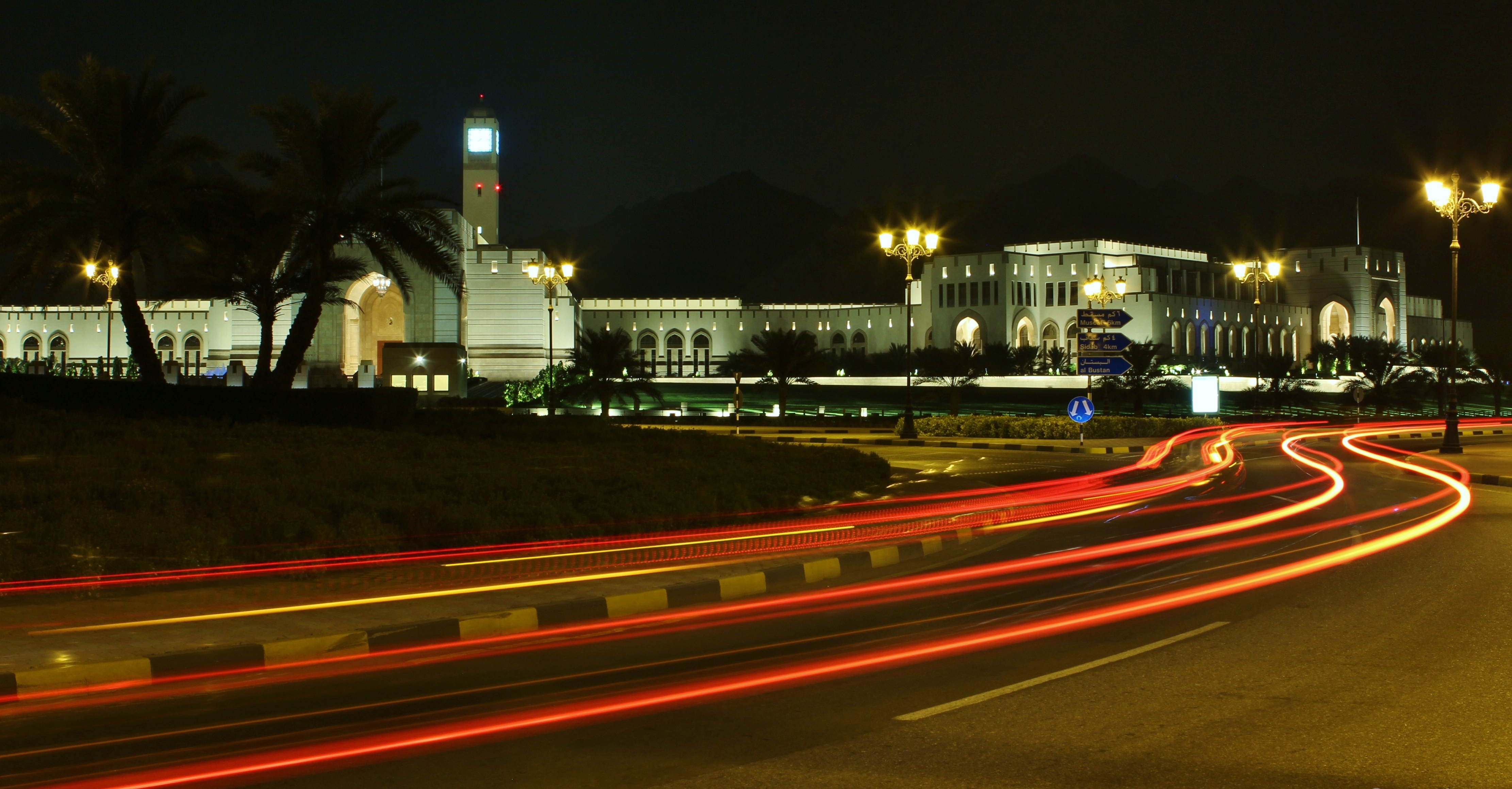 النقل في عمان3